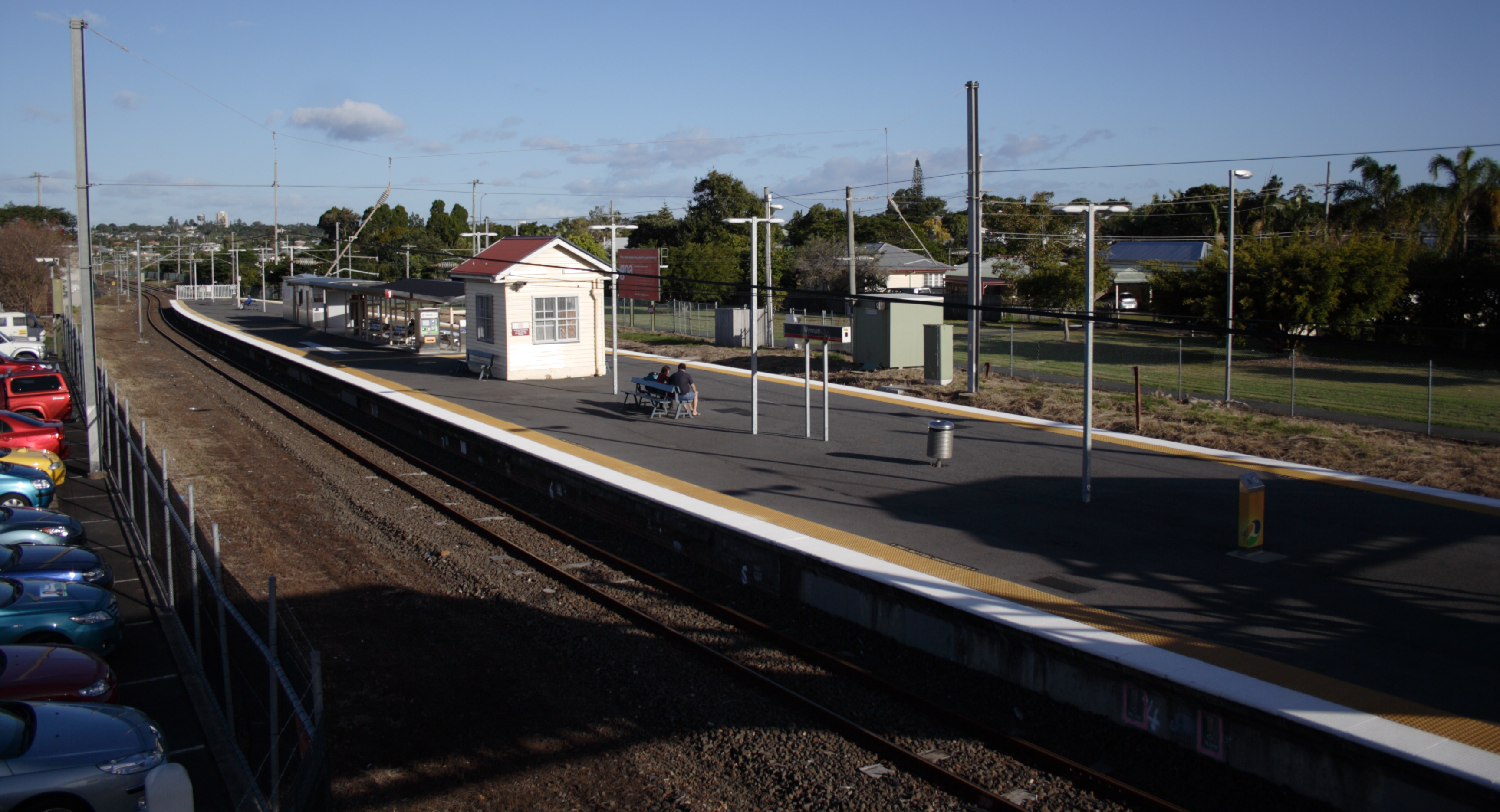 Wellington Point Railway Station viewed from stairs.